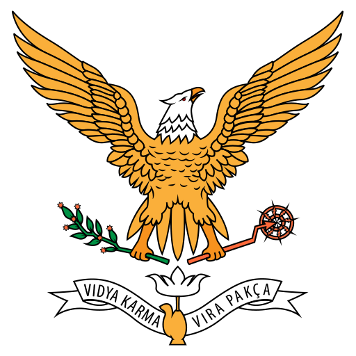 The logo of the Indonesian Air Force Academy